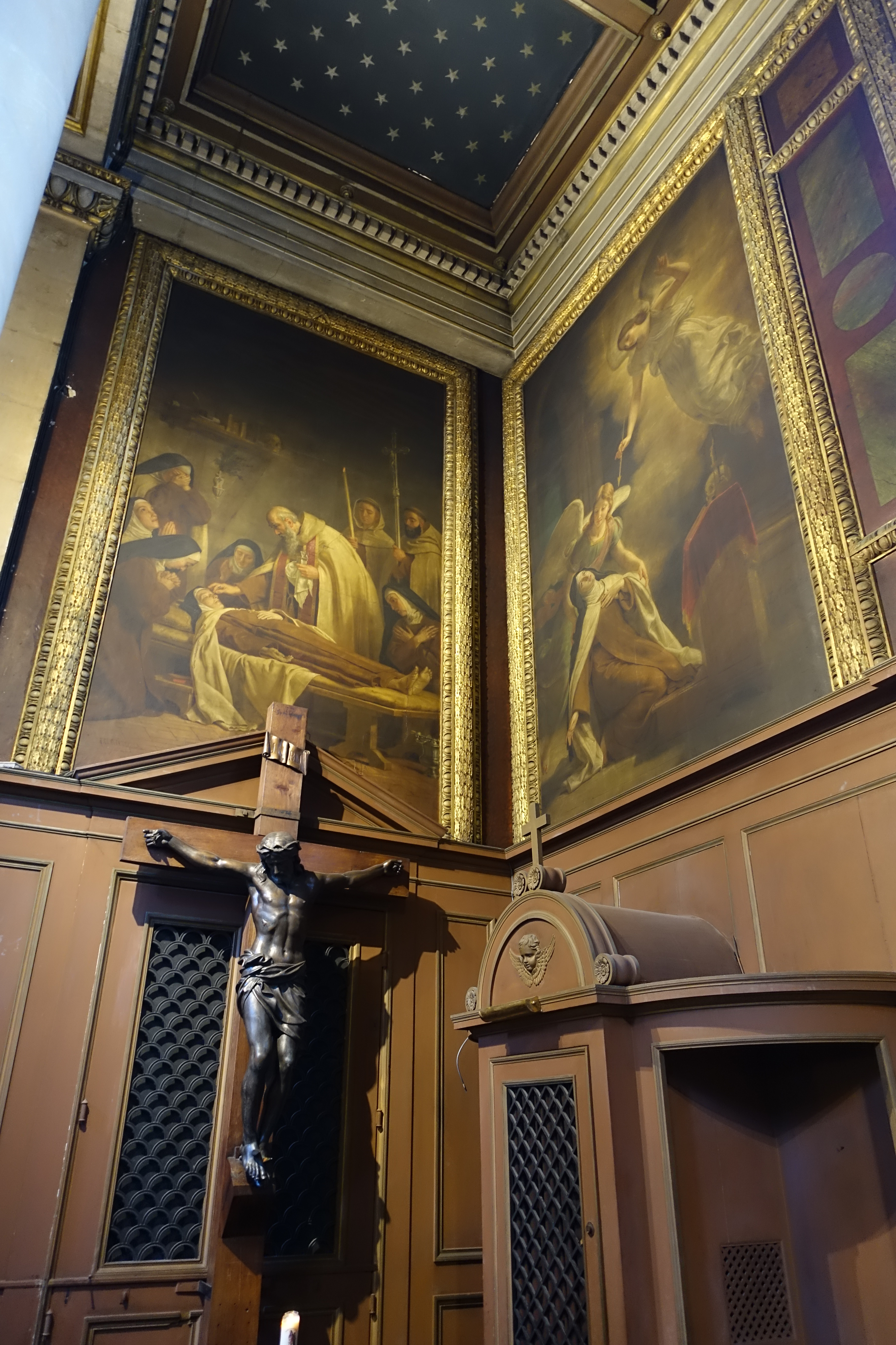 The Church of Notre-Dame-de-Lorette, a neoclassical church in the 9th arrondissement of Paris. Address: 1 Rue Flechier, 75009 Paris, France.